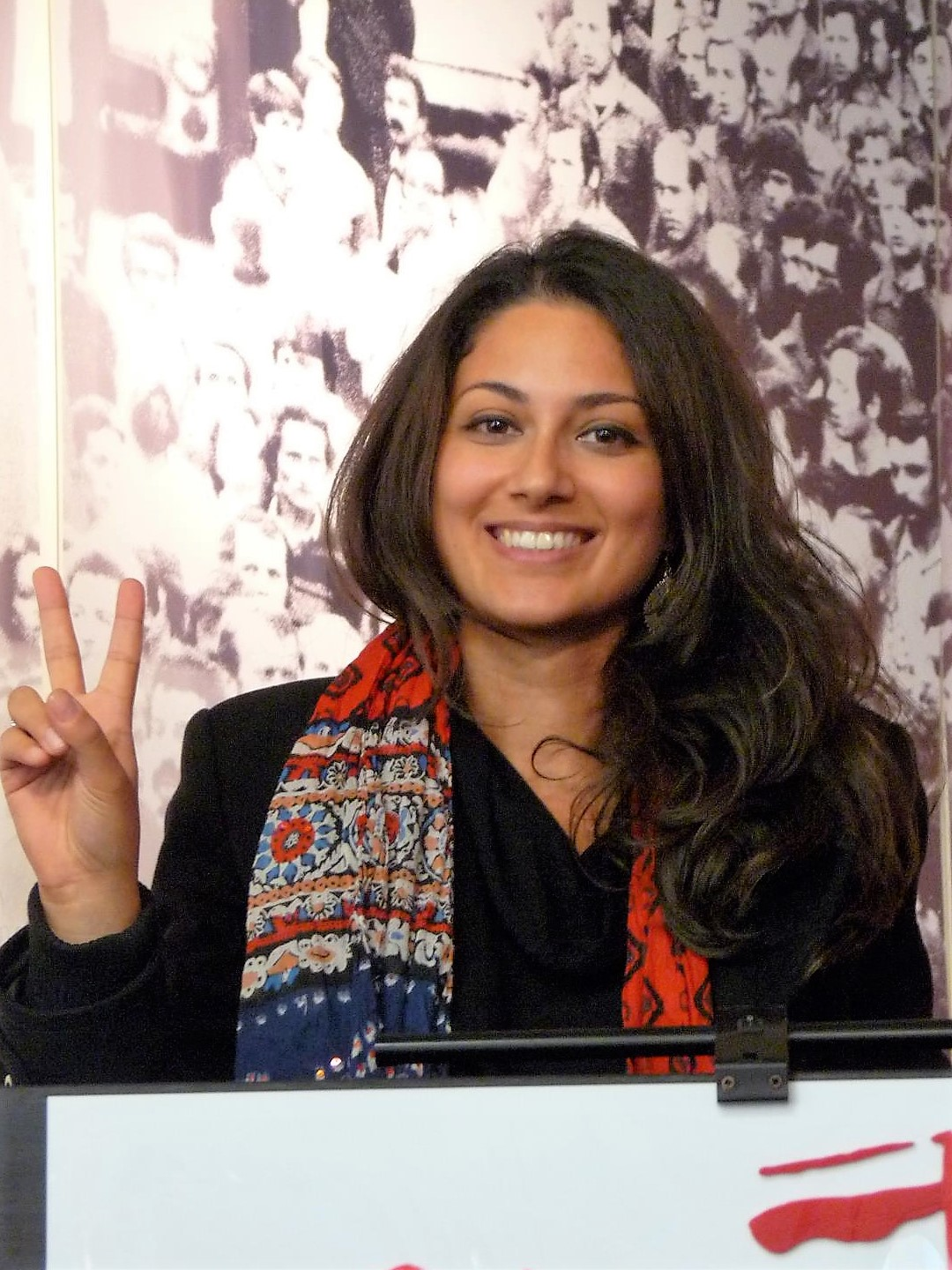 Headshot OK